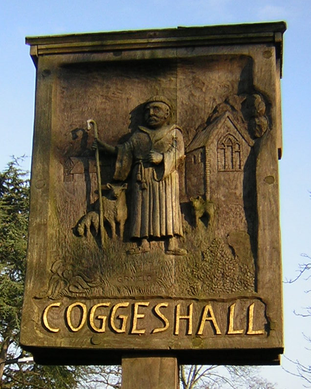 Coggeshall town sign. Taken by AGGoH on the 6th of January, 2006.